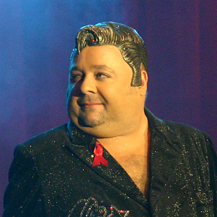 Dirk Bach, German actor and entertainer, at AIDS charity party „Cover Me“ 2005 in Cologne date: 2005-12-02 author: Elke Wetzig (elya)